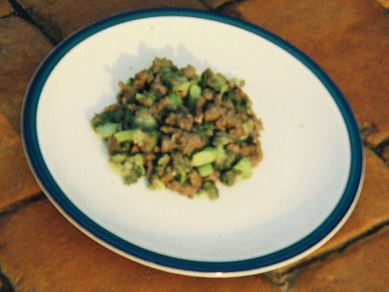 to match the wikibooks Cookbook:Placenta_with_Broccoli recipe